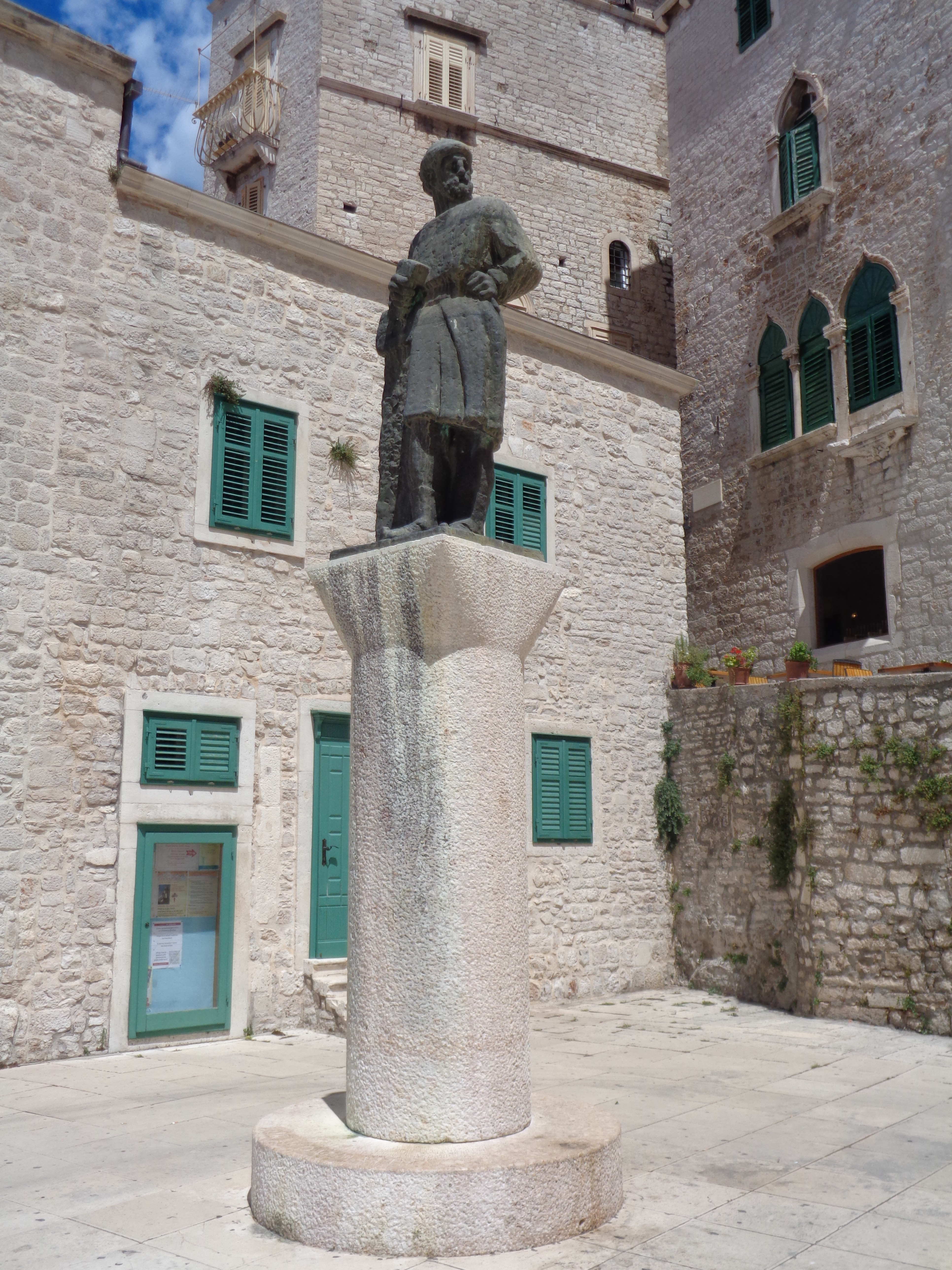 Šibenik, statue of Juraj Dalmatinac, made by Ivan Meštrović